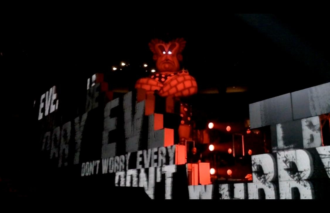 October 26th, 2010, in Omaha Nebraska.